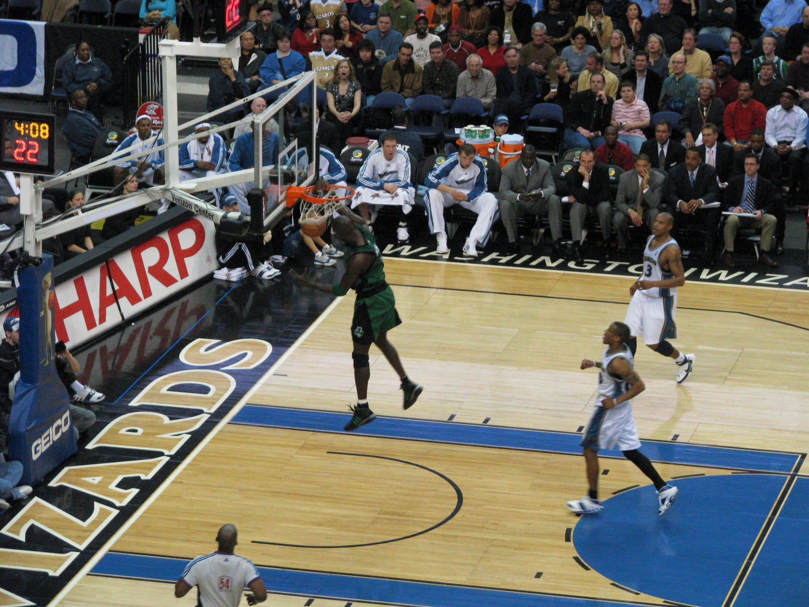 KG had a breakaway dunk that the whole crowd erupted for. Hard to not get with this guy even if he plays on the other team.